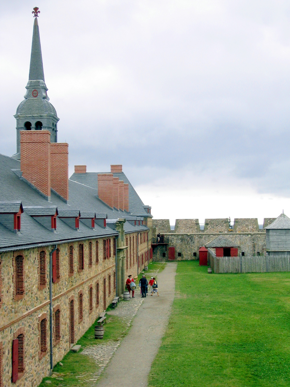 Fortress of Louisbourg, Cape Breton Island, Nova Scotia